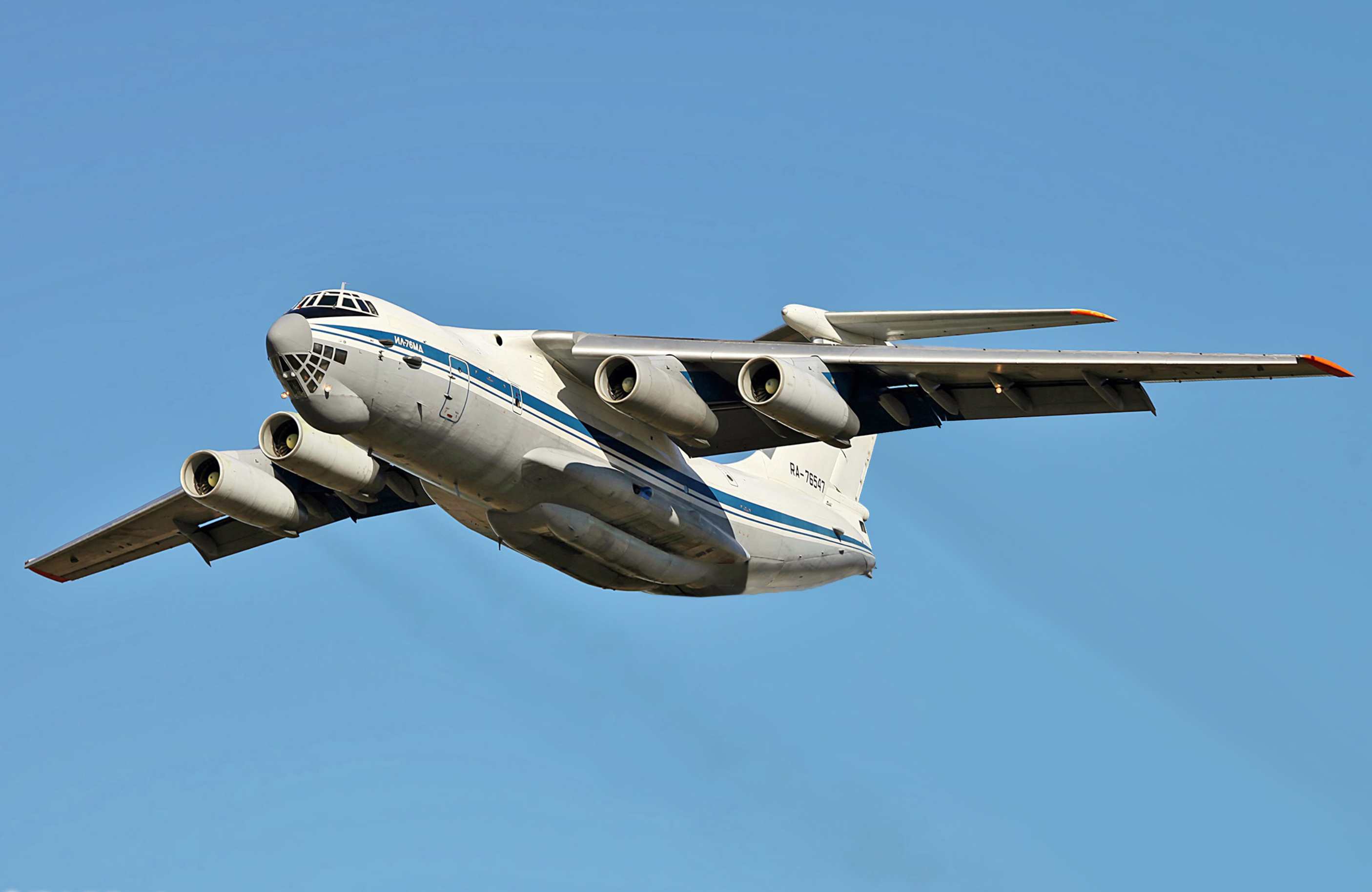 Before the competition IL-76MD dropped the water to the training range